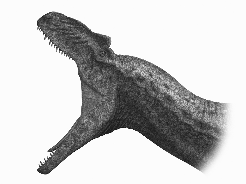 Allosaurus skull: Showing the maximum possible gape of Allosaurus as hypothesized by Robert Bakker • The wide gape is based on figure 6 in 'Bakker 1998'. The head shape is based on specien AMNH 666, what Bakker calls 'Creosaur style allosaur'. [1] 'Creosaurus' is genrally thought to be synonymous with Allosaurus. A study in 2015 using computer models came to a similar conclusion. [2] • The skin details are partly speculative. A juvenille allosaur is known to have had scaly skin on some parts of its body[3]. Up until recently large theropods with skin impressions have shown 'typical dinosaurian' scales.[4] In 2012 Yutyrannus was described, it showed that large theropods could have been covered in feathers [5]. There are many dinosaurs being discovered from all over the family tree with evidence of quils or feathers so it is possible that allosaurs also had them (see Feathered Dinosaur). Note: I often update my images; If you want to post this image on other websites, if possible, please link to the original file here. This will allow others to see the most recent version. Thanks. References ↑ Bakker, Robert T. (1998). "Brontosaur killers: Late Jurassic allosaurids as sabre-tooth cat analogues" (pdf). Gaia 15: 145–158. ISSN 0871-5424. ↑ Lautenschlager, Stephan (2015). "Estimating cranial musculoskeletal constraints in theropod dinosaurs" (pdf). Royal Society Oepn Science 2. ↑ Pinegar, Richard. Tyler; et al. (2003). "A Juvenile Allosaur with Preserved Integument from the Basal Morrison Formation of Central Wyoming". SVP Conference Abstracts. ↑ Currie, Philip J and Kevin Padian , ed. (1997) , Academic Press, p. 100 ↑ (2012). "A gigantic feathered dinosaur from the Lower Cretaceous of China" (PDF). Nature 484: 92–95. PMID 22481363.